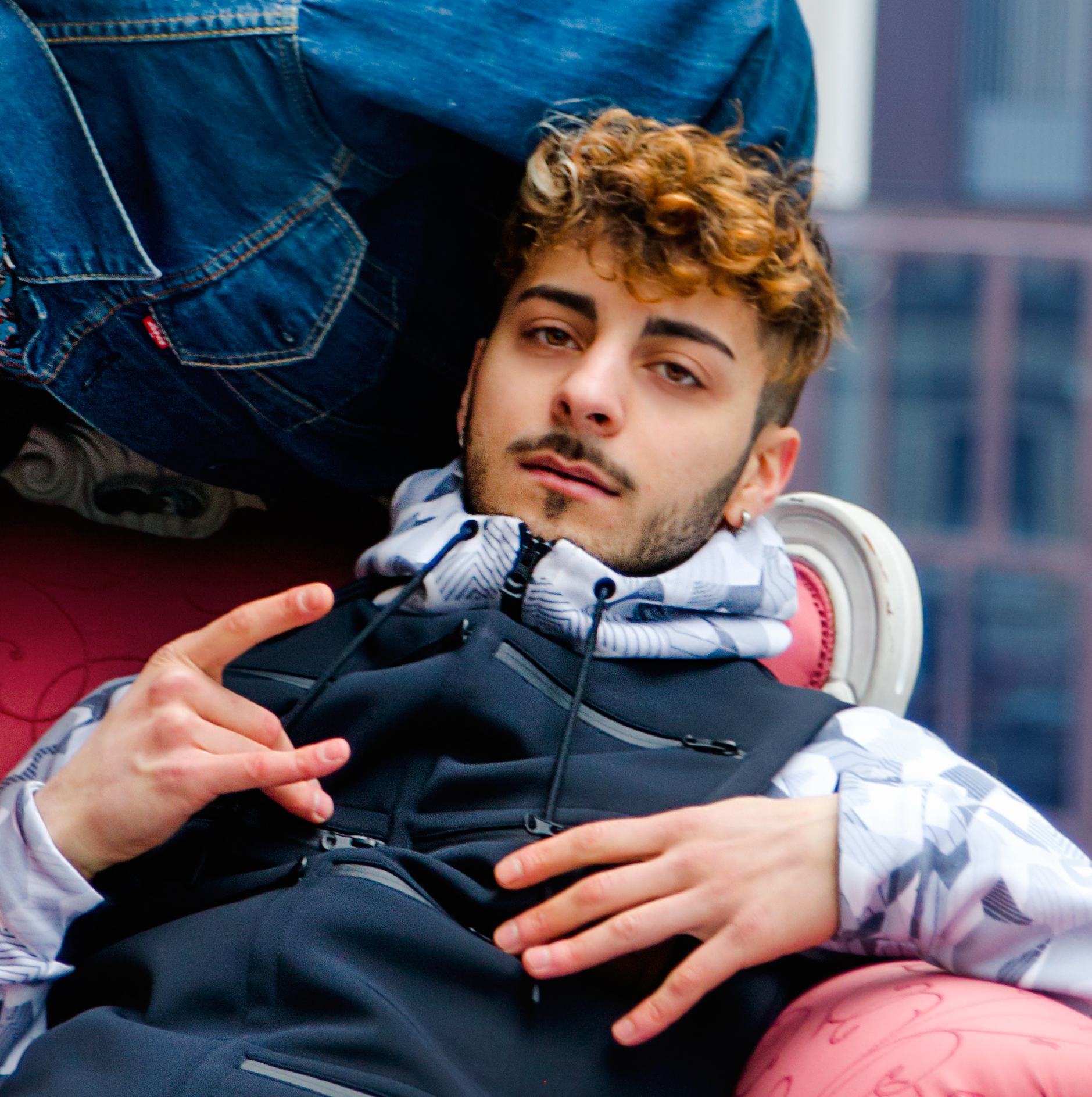 Italian record producer Charlie Charles with photographer Marco Del Torchio